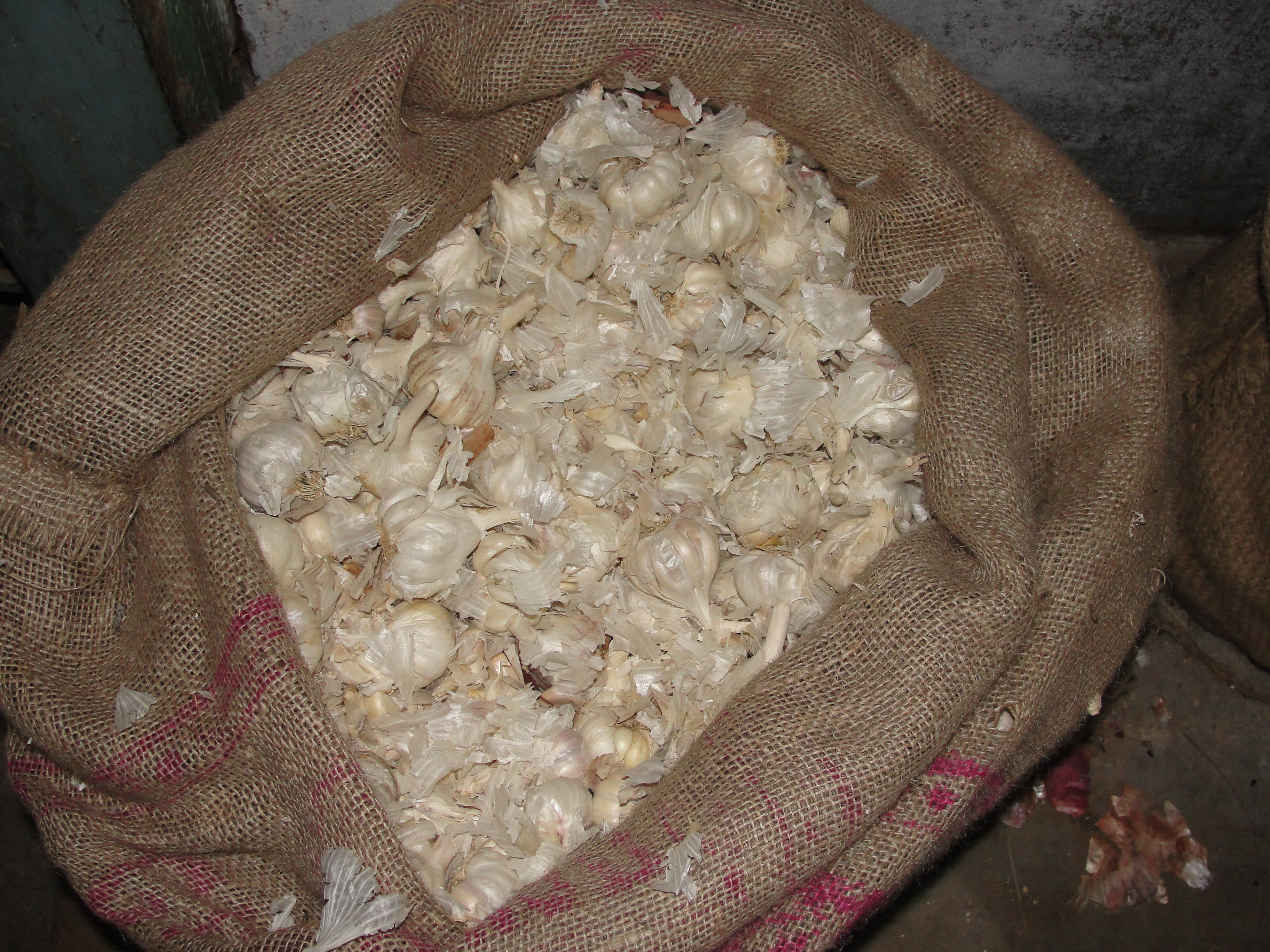 This picture depicting garlic (Allium sativum) in a gunny bag. Garlic is one the important herbal plant Tamils using daily. Tamils using garlic for food preparation and traditional medicine preparation.